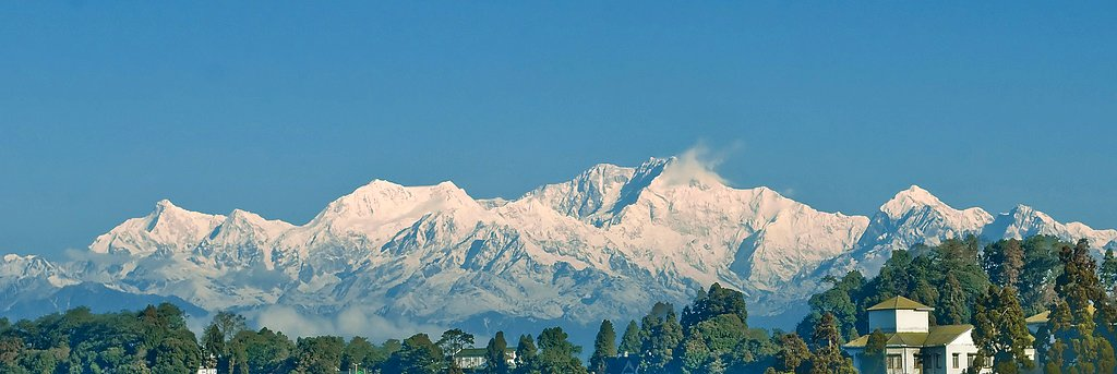 "This was taken from our Hotel (Hotel Swami) Room at early morning. This is our very first day at Darjeeling and this is the first time i was watching Kanchanjunga just wake up from sleep...I was just stunned by its beauty!!! It was an amazing experience which can't be explain at words and i believe no photograph can give you that feelings." Location: Darjeeling Nikon D60 + AF-S DX Nikkor 18-55mm VR + Adobe Photoshop CS3